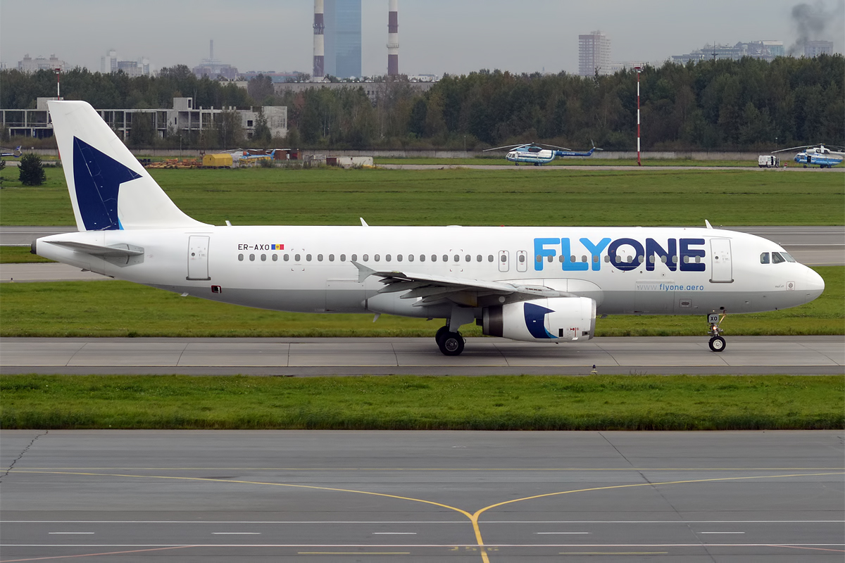 Fly One, ER-AXO, Airbus A320-231